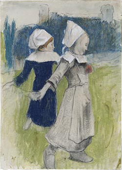 Study for Breton Girls Dancing. Pastel and charcoal, with watercolor and gouache, on cream-colored paper.